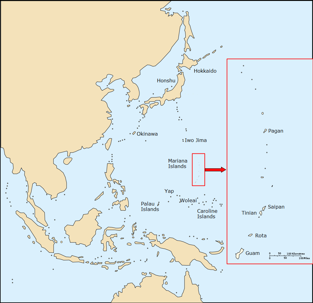 A map showing locations mentioned in the Japanese air attacks on the Mariana Islands article